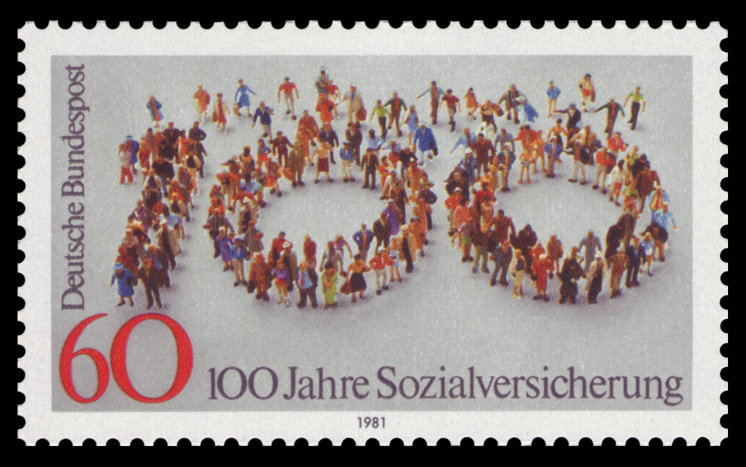 100 years of social insurance (in Germany)